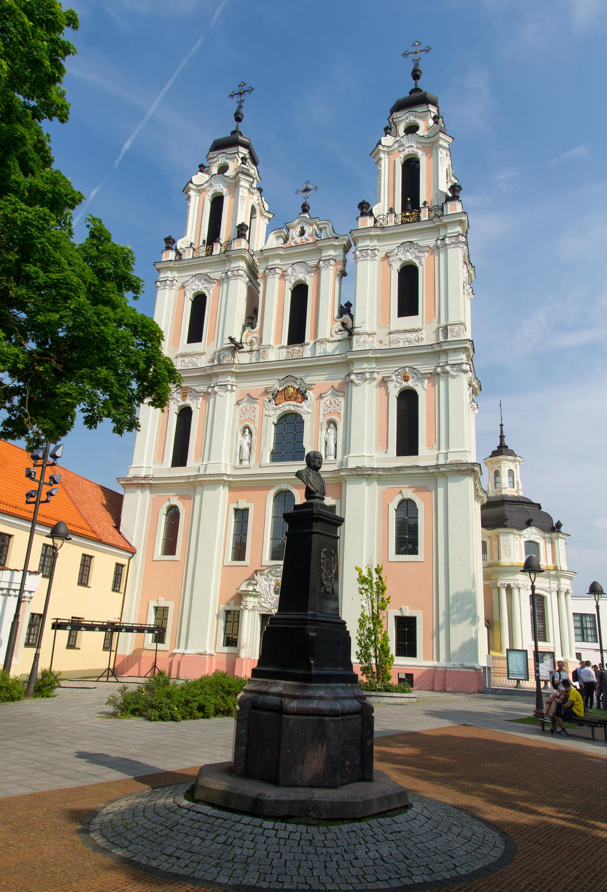 Church of St. Catherine in Vilnius, Lithuania.